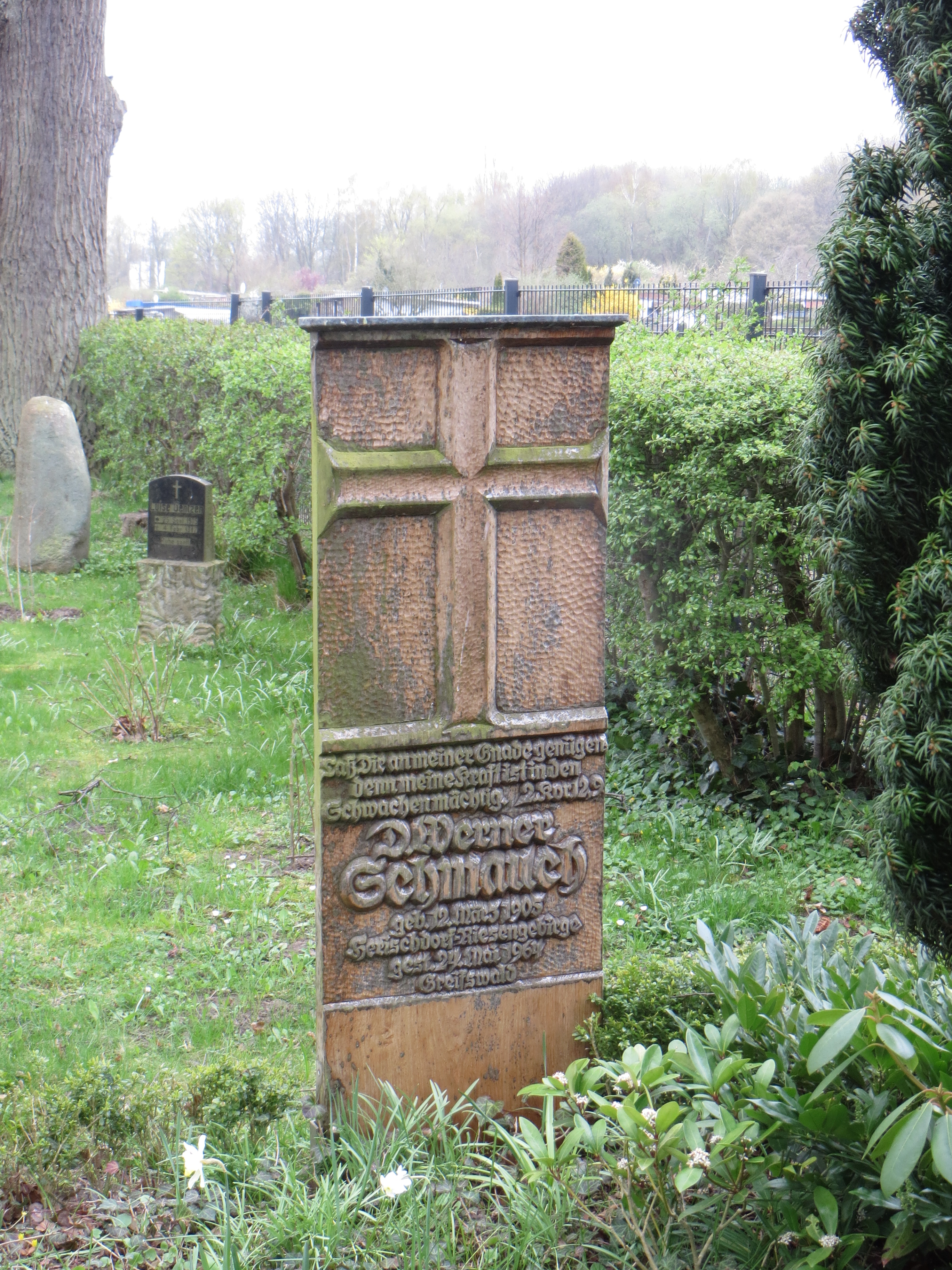 Churchyard in Wieck, April 2014; grave of Werner Schmauch